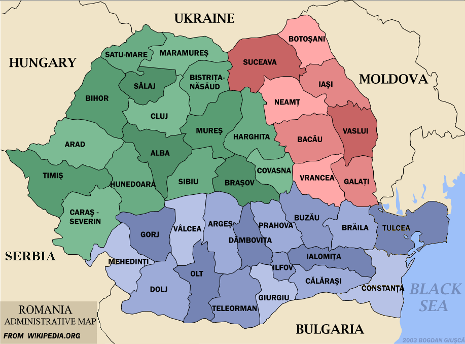 This file was made by Bogdan with the help of Xara X and a public domain map from CIA. If you want the vectorial file (in .xar format), contact me. see also: Image:Romania-administrative-blank-large.png